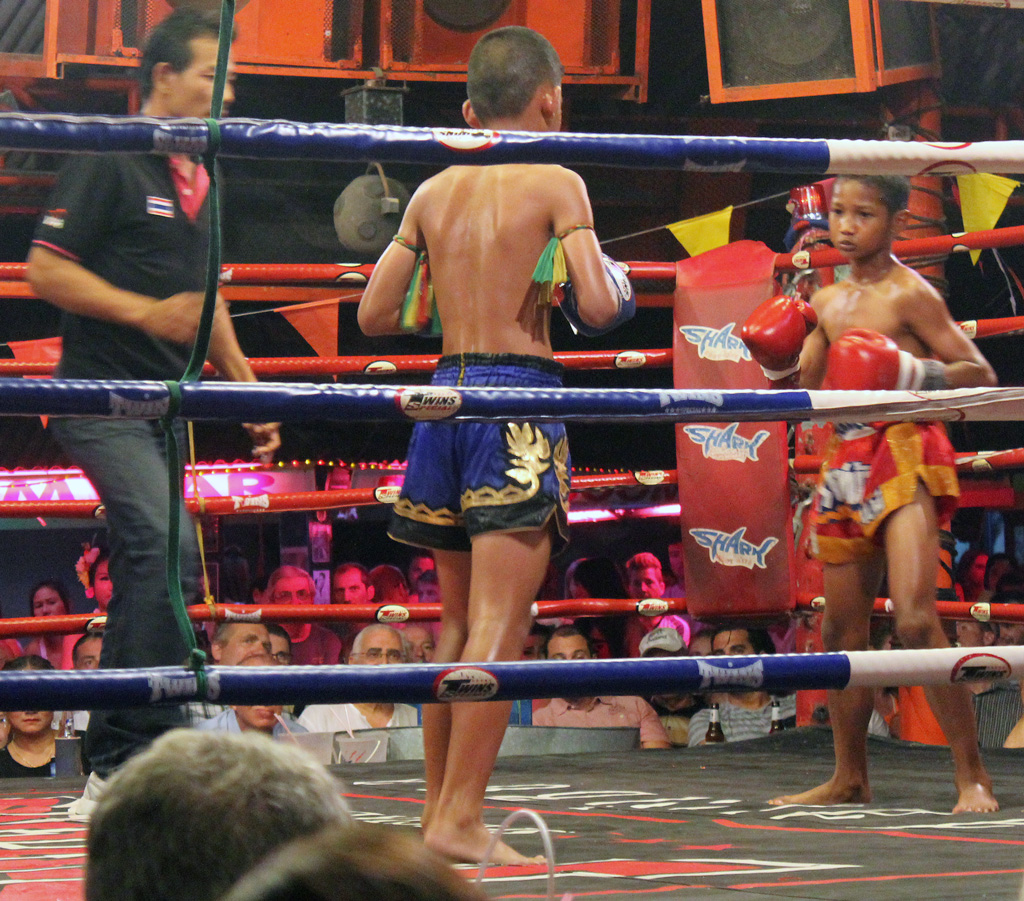 Kids in professional Muay Thai (Thai boxing) fight (Lamai, Koh Samui, 2016)